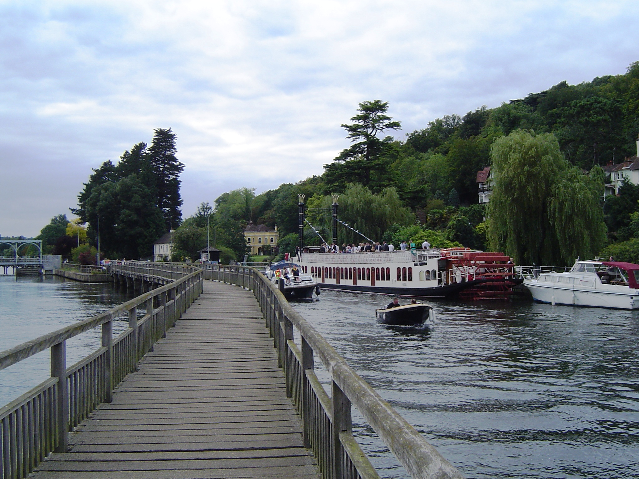 Marsh Lock River Thameswith the footbridge from upstream